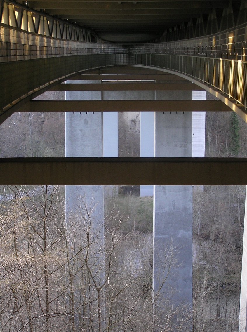 Looking down from inside the Mangfall Bridge, Bavaria